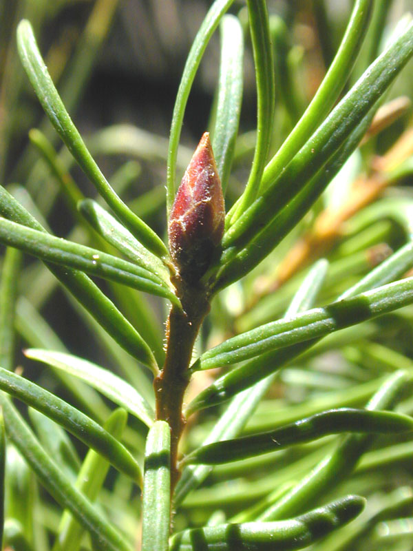 Douglas fir (Pseudotsuga menziesii) branch close up. Taken by Eric Guiinther and released under the GNU Free Documentation License